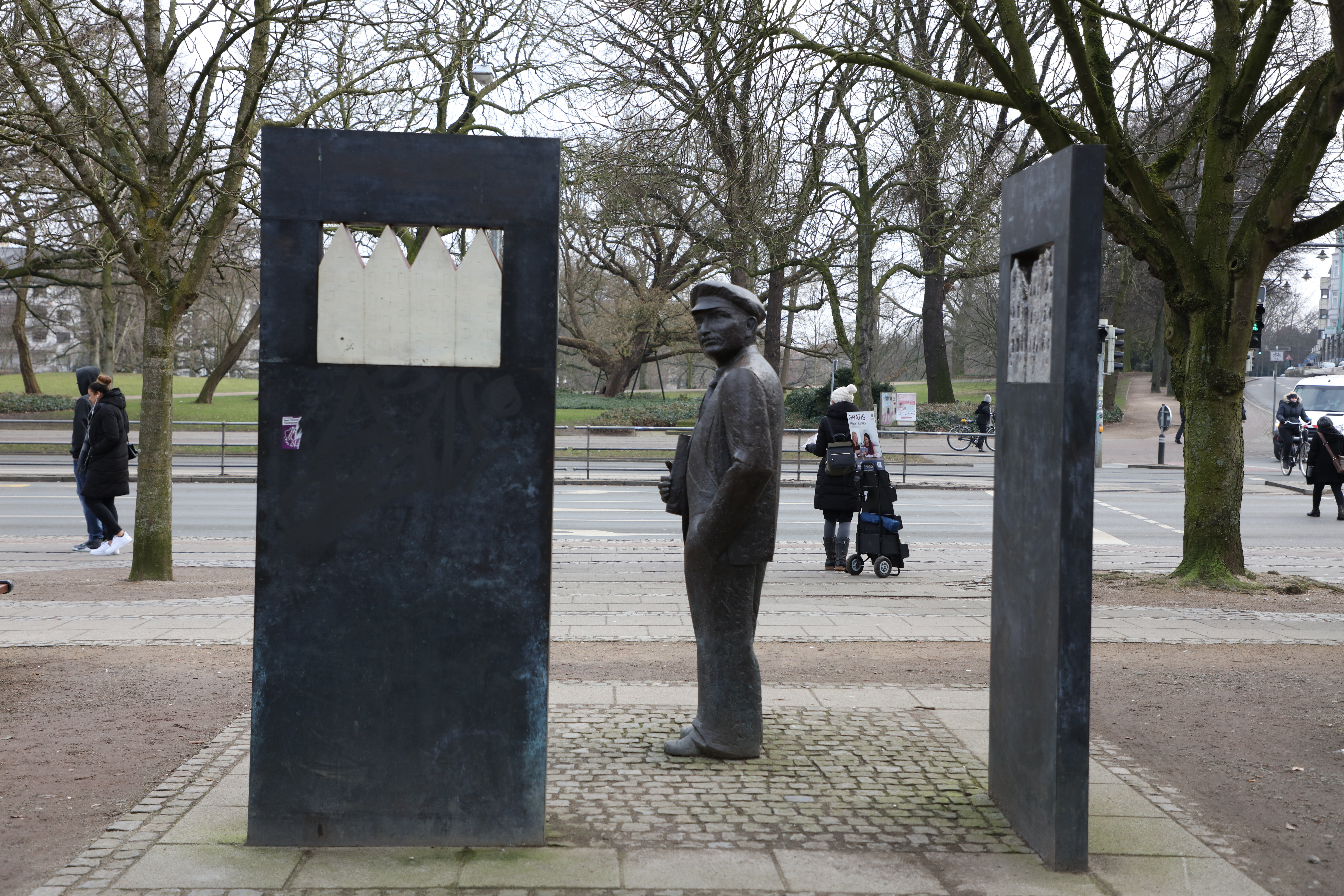 The sculpture "Kaisen-Denkmal" by Christa Baumgärtel is a memorial (2012) of Wilhelm Kaisen, mayor of Bremen